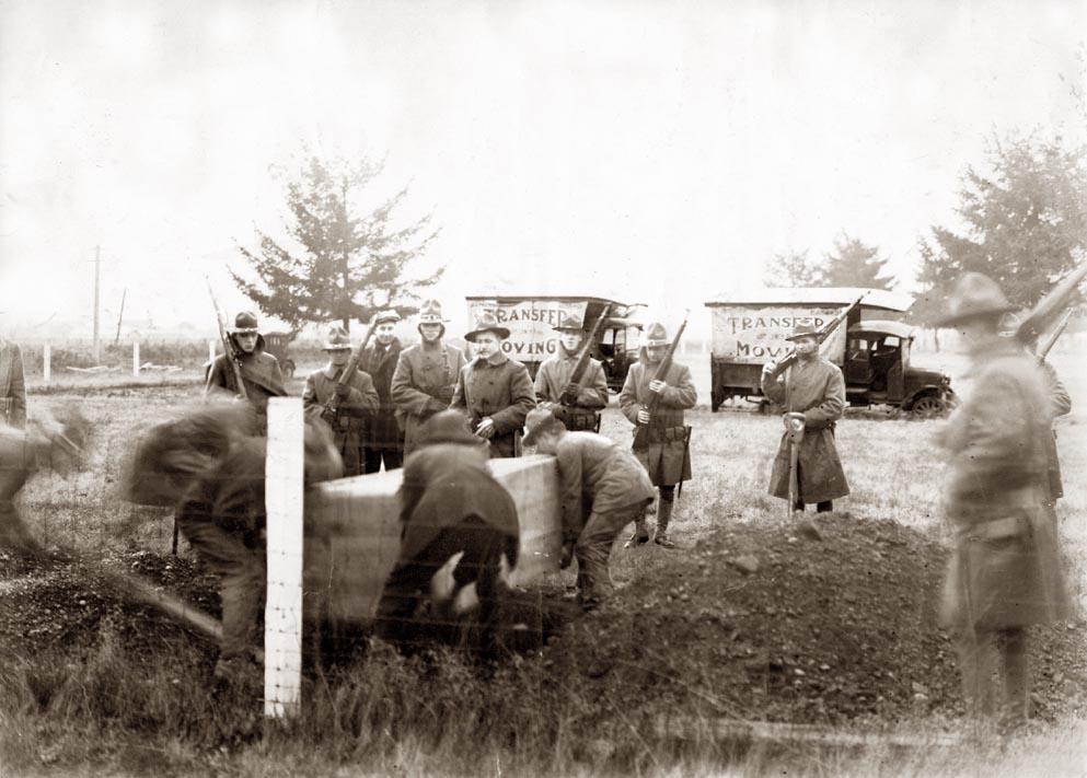 The burial of Wesley Everest, with armed National Guard unit. The casket is supposedly being lowered into the grave by the IWW prisoners from the jail, with the Jim Lynch moving vans in the background. Emil Remmen is in back, far right, facing the camera. See the source for additional information. Note: The source may not be Reliable.